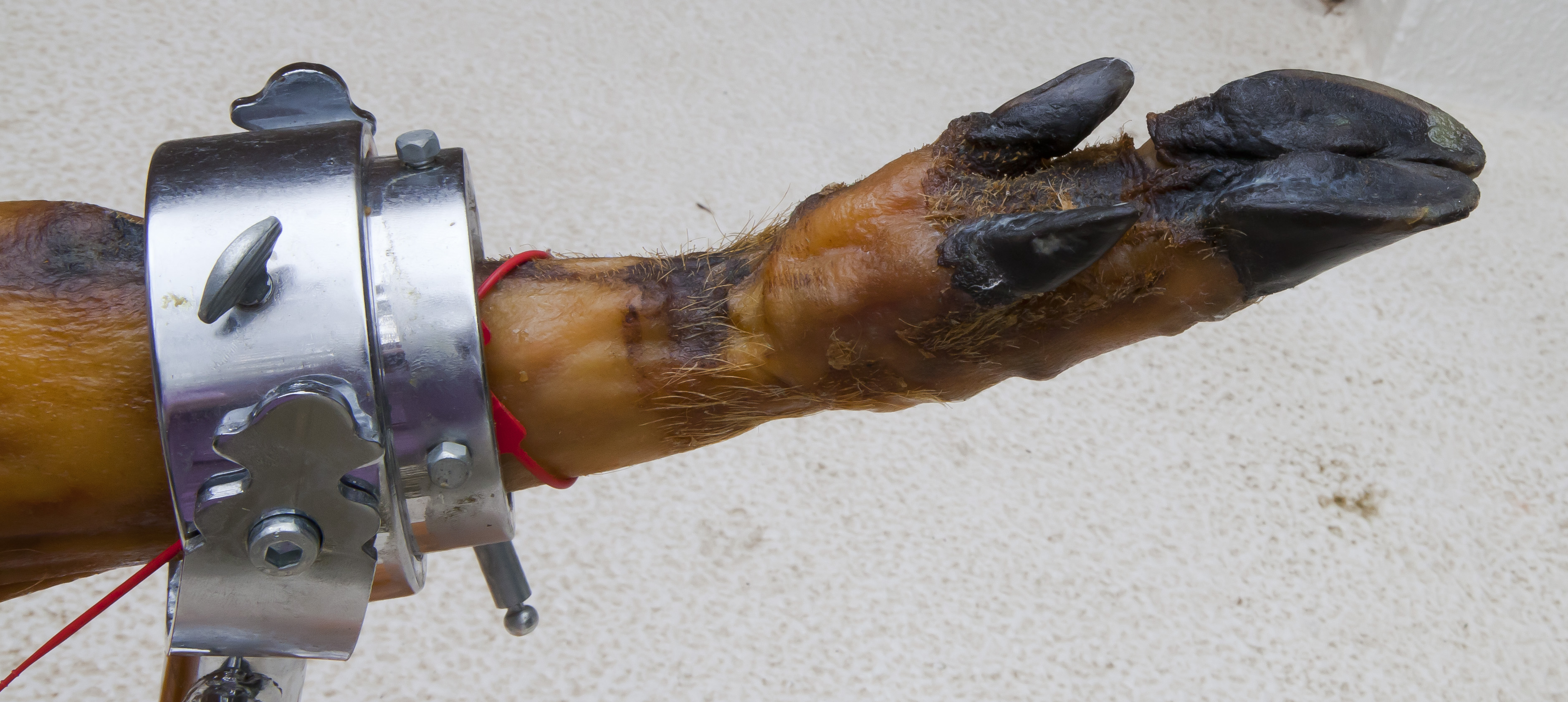 Jamón ibérico, Setubal, Portugal